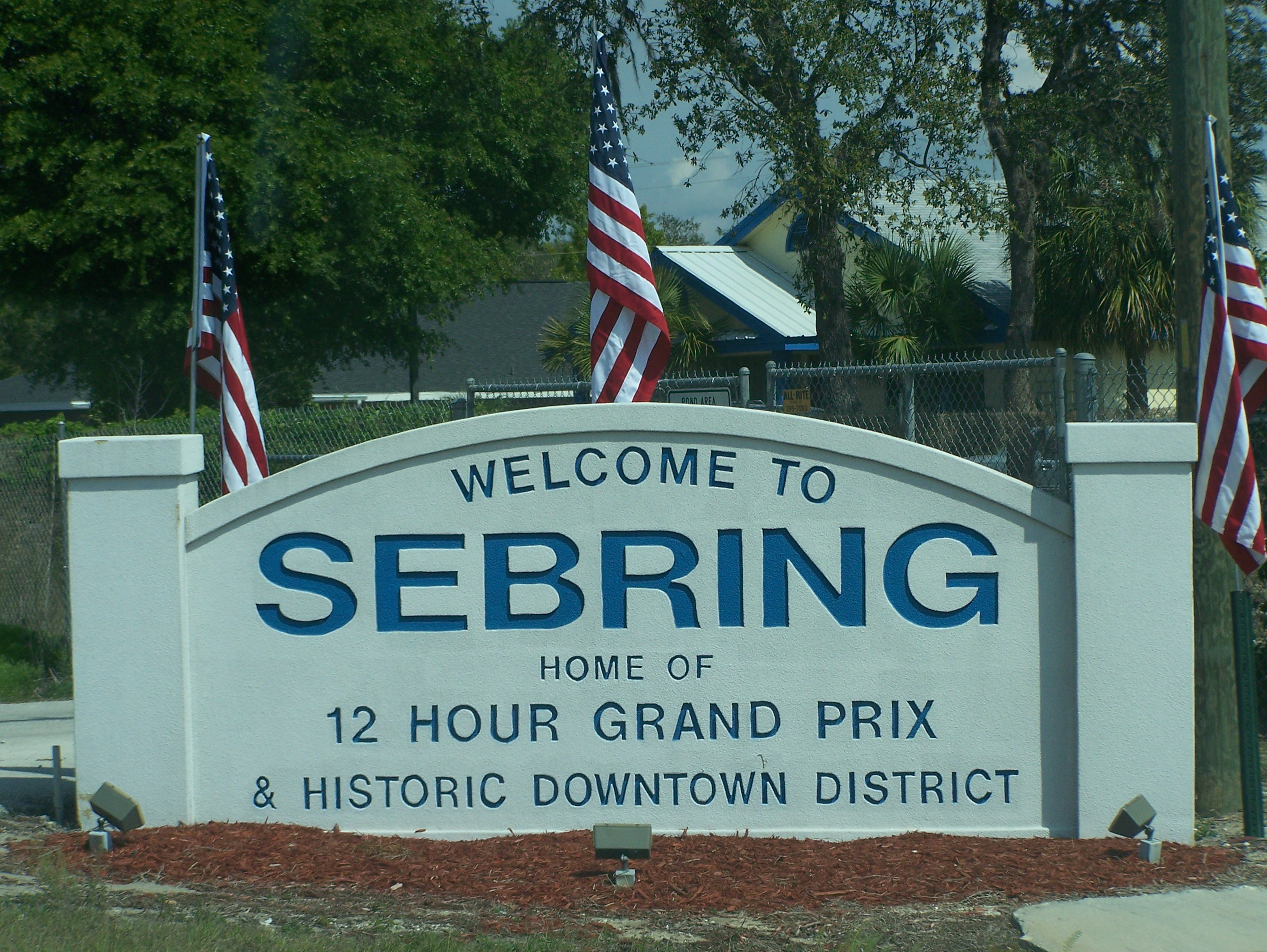 Welcome to Sebring, Florida